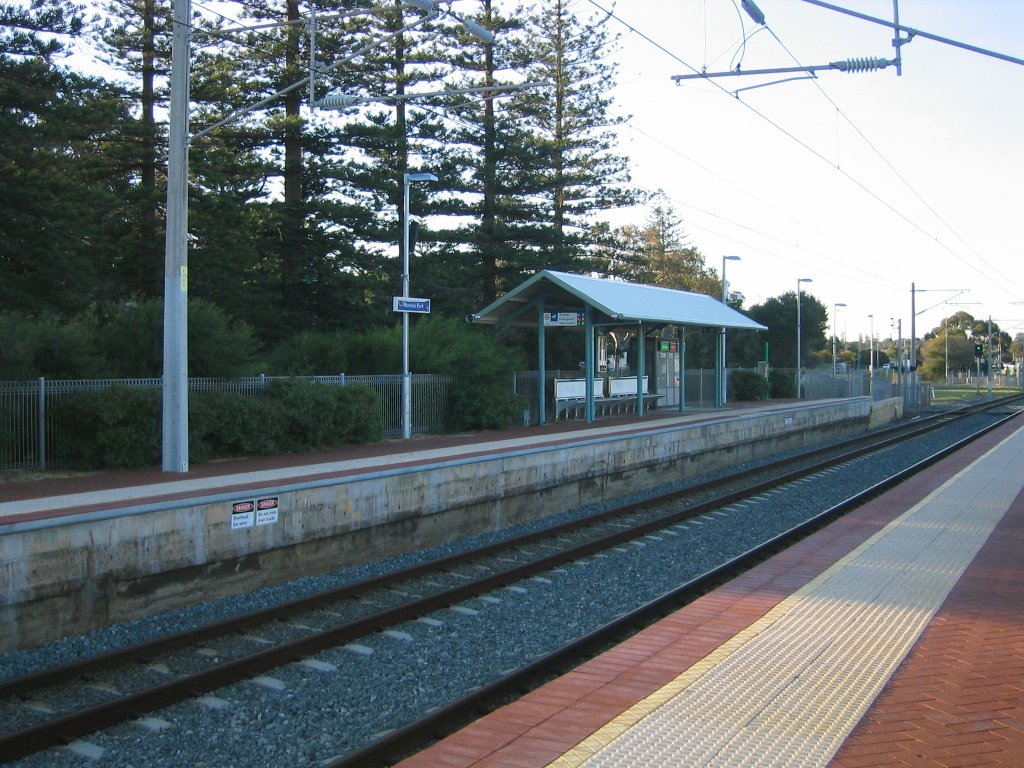 Transperth Mosman Park Train Station